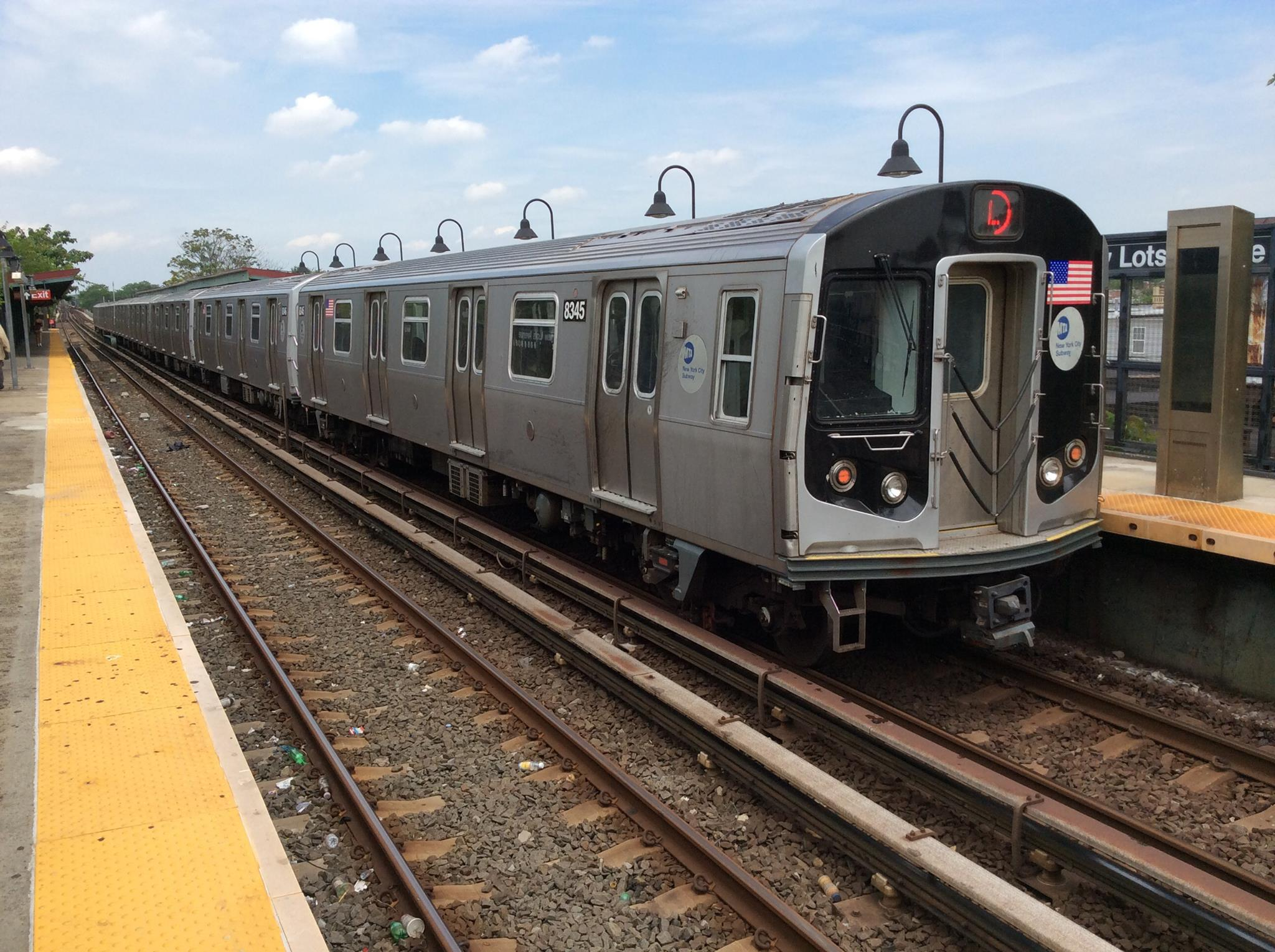 Northbound L train at New Lots.